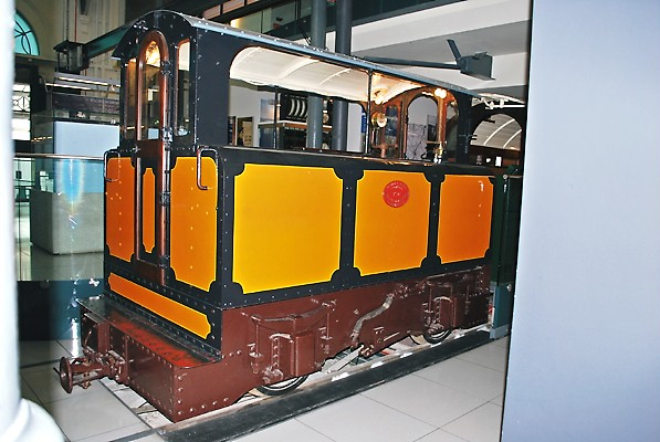 City & South London Railway electric Bo No.30 built by Mather & Platt, Salford (Works No.13) in 1890. Withdrawn 1930. At the London Transport Museum, 06/09.